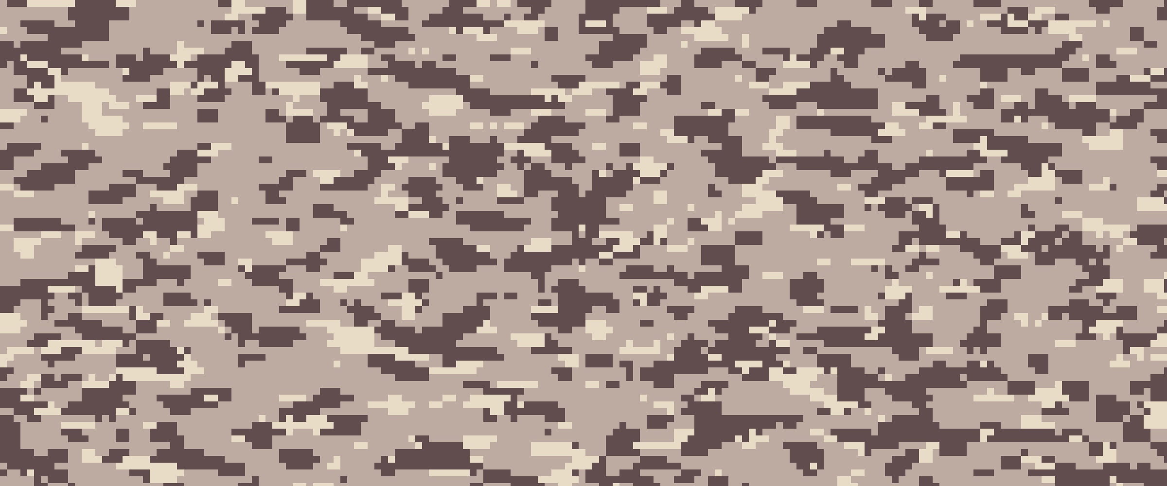 Canadian Disruptive Pattern Arid Region